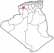 Blank map of the provinces of Algeria with a red city locator dot. Made by User:Escondites, blank version by User:Golbez.